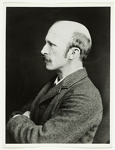 Profile Portrait of Abbott Handerson Thayer. Digitized from original photographic print, b&w ; 26 x 20 cm.